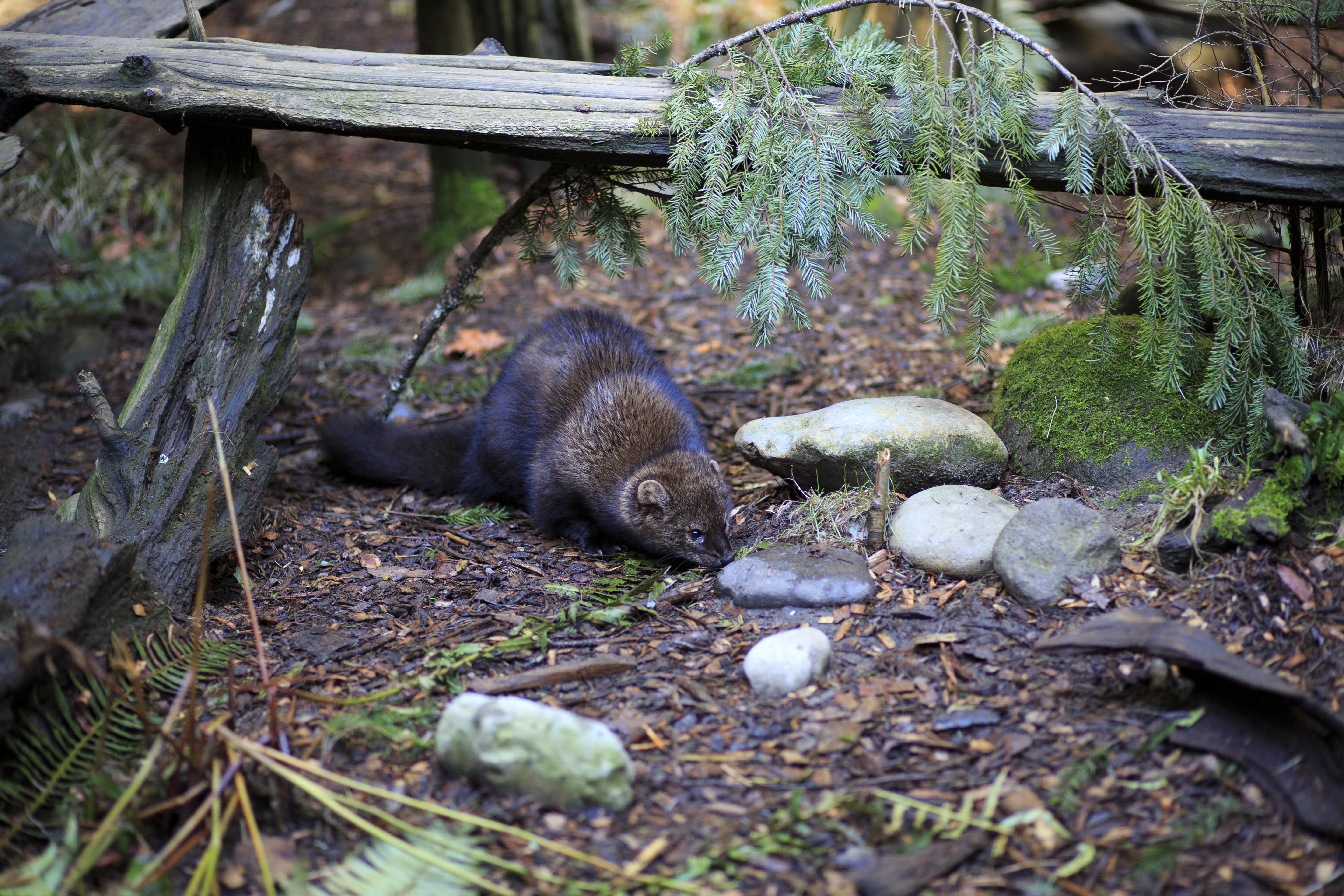 Fisher Keywords: animal